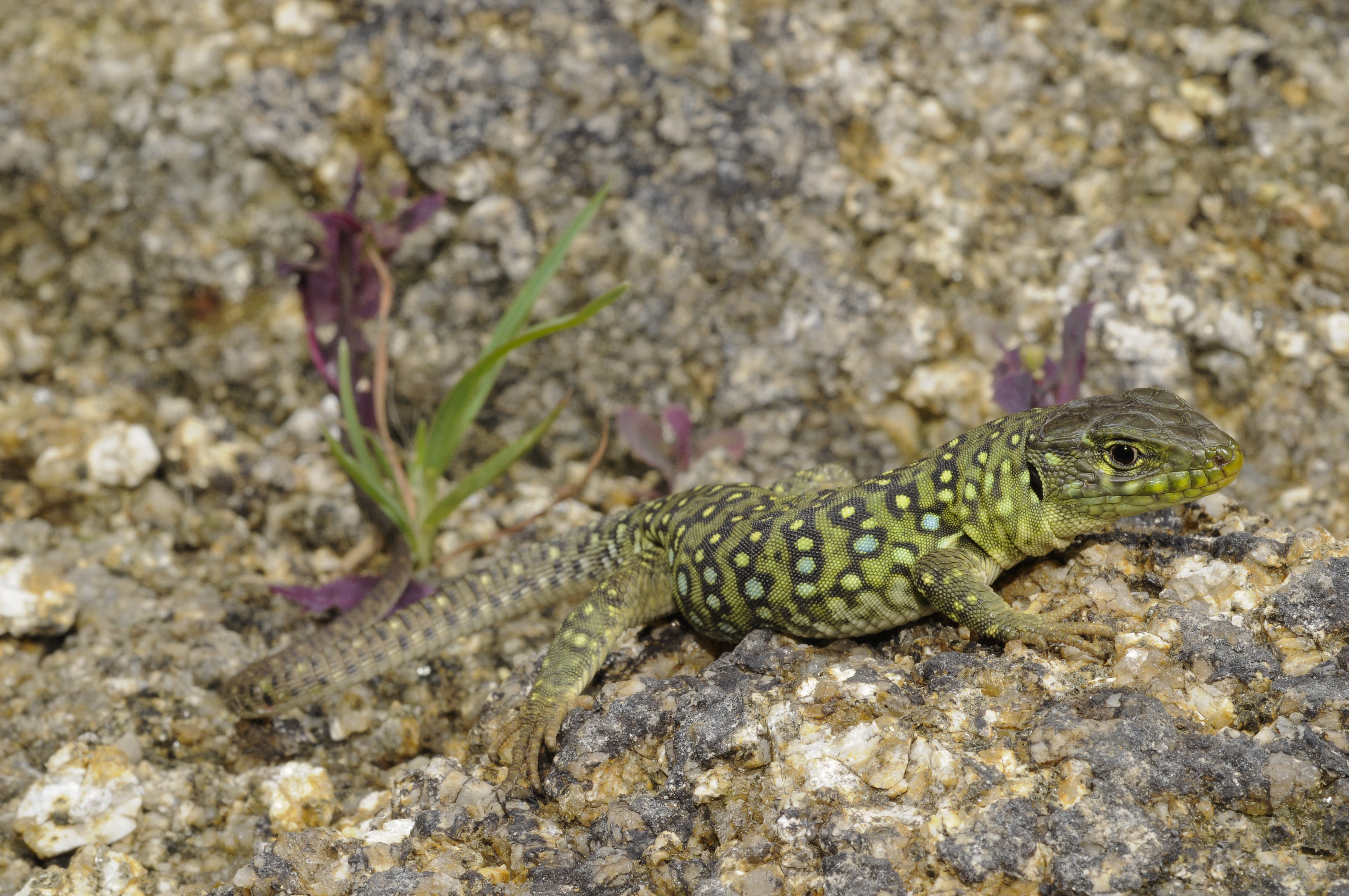 Timon lepidus juvenile